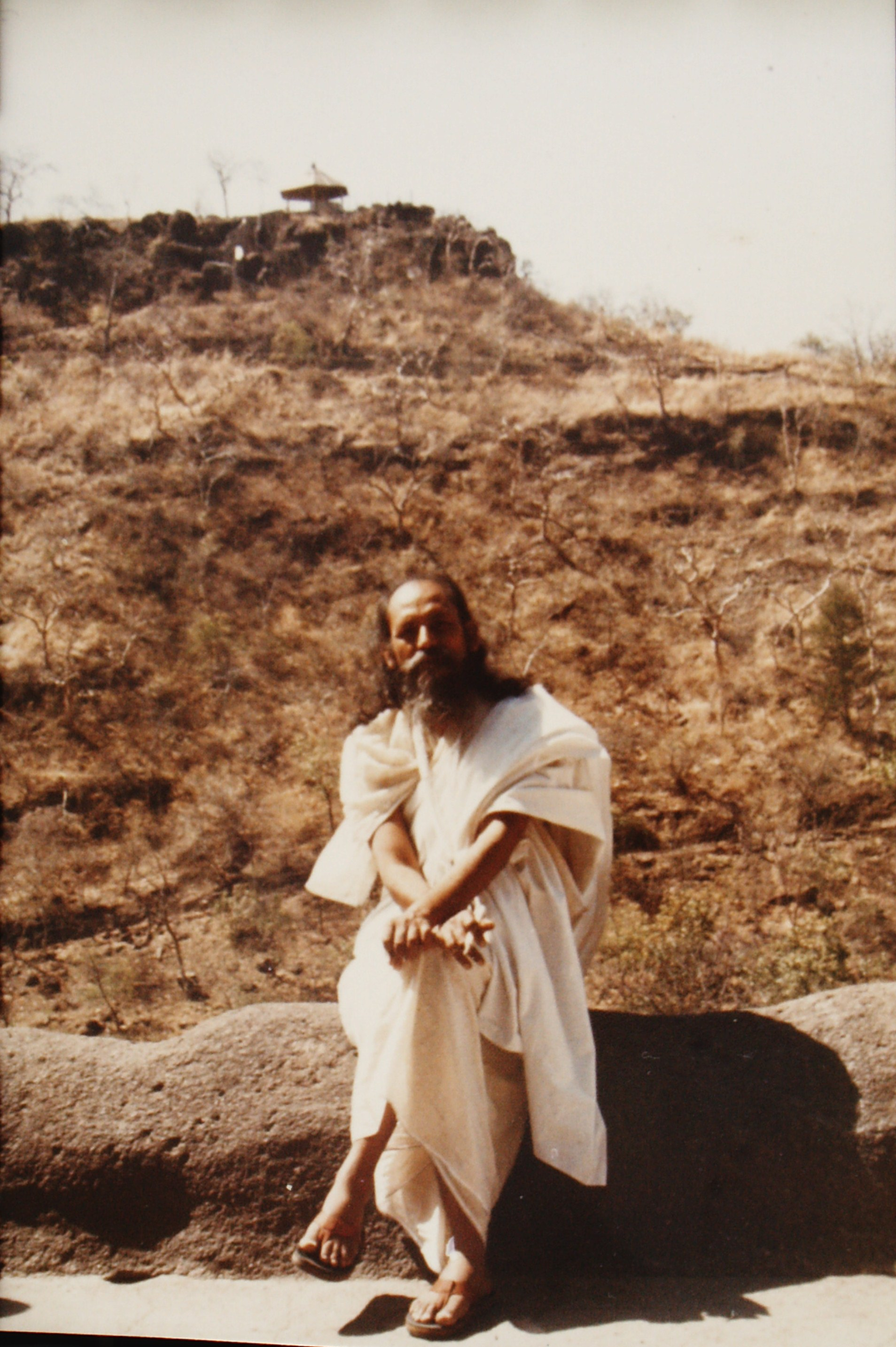 Baba Hari Dass in India